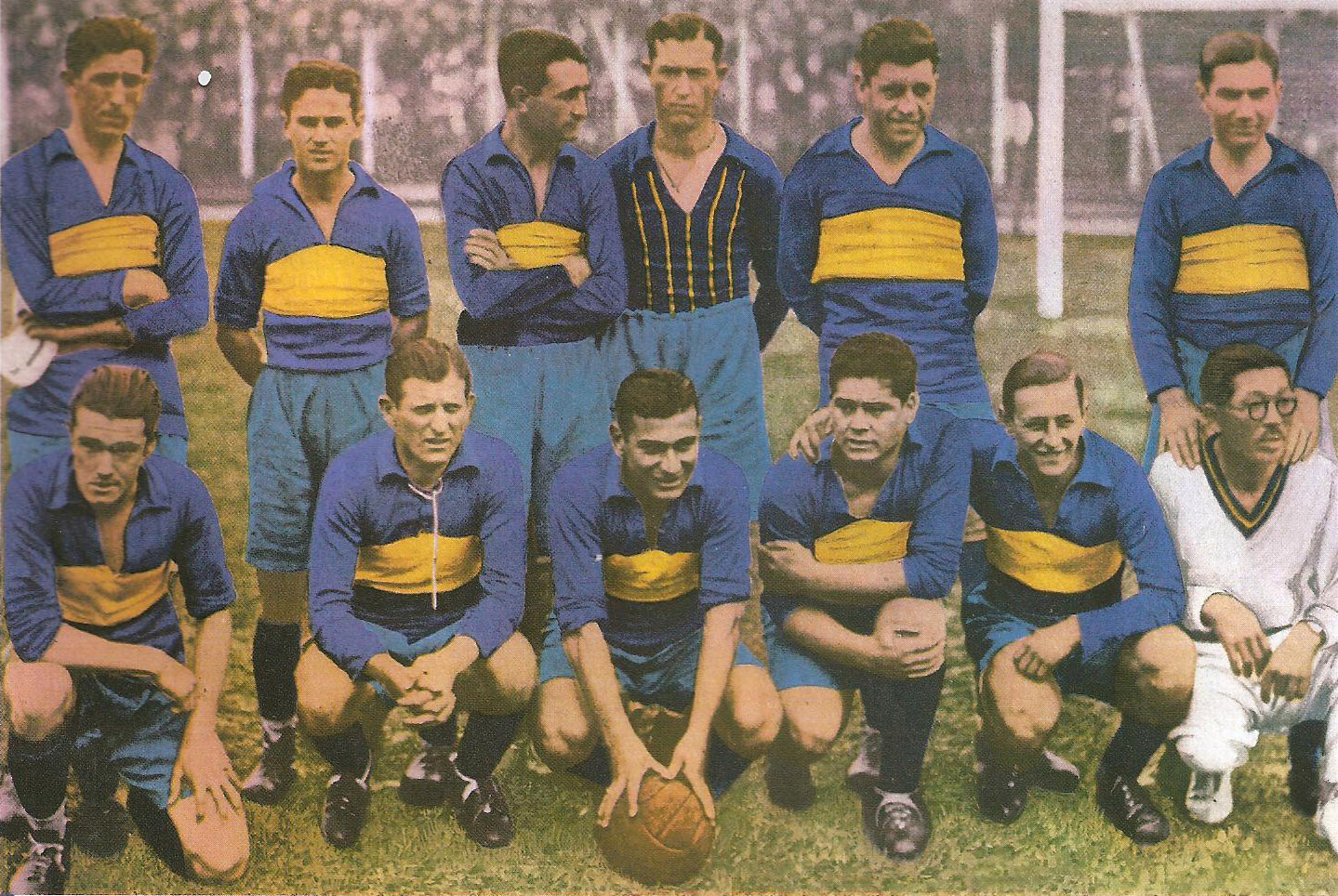 The 1931 Boca Juniors team, the first champion in the professional era of Argentine football. (stand): Evaristo, Dedovich, Spitali, Fosatti, Mutis, Arico Suárez. (seated): Nardini, Tarasconi, Varallo, Cherro, Alberino.